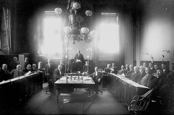 The Newfoundland House of Assembly, circa 1914. Edward Morris, the prime minister and leader of the Peoples Party, is the third person to the left of the Speaker. Unlike most parliamentary legislatures, in Newfoundland the party in power sat to the left of the speaker - because that was where the fireplace was located.